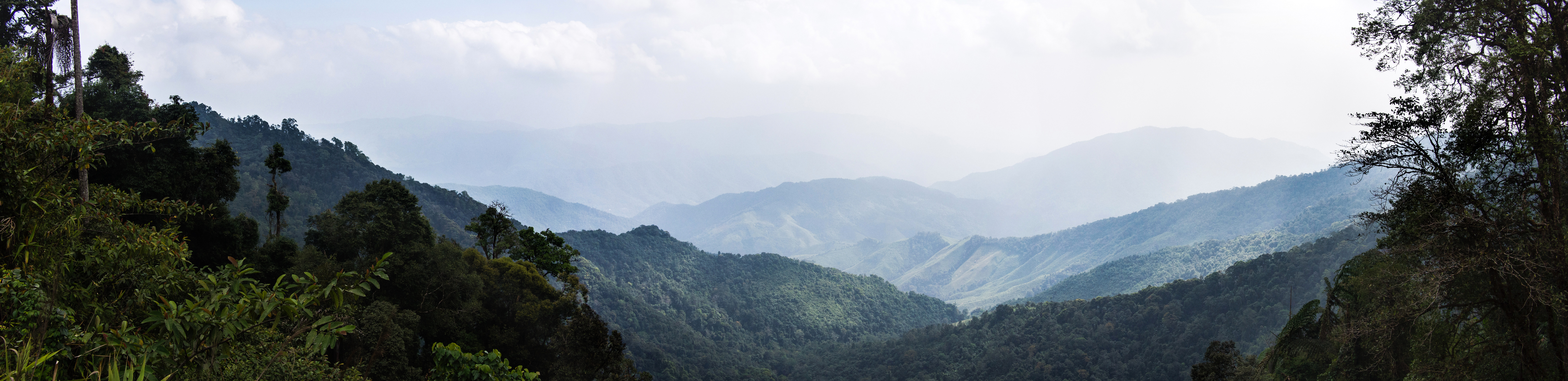 A panorama of the mountains of the Luang Prabang Range, just south of Doi Phu Kha itself.